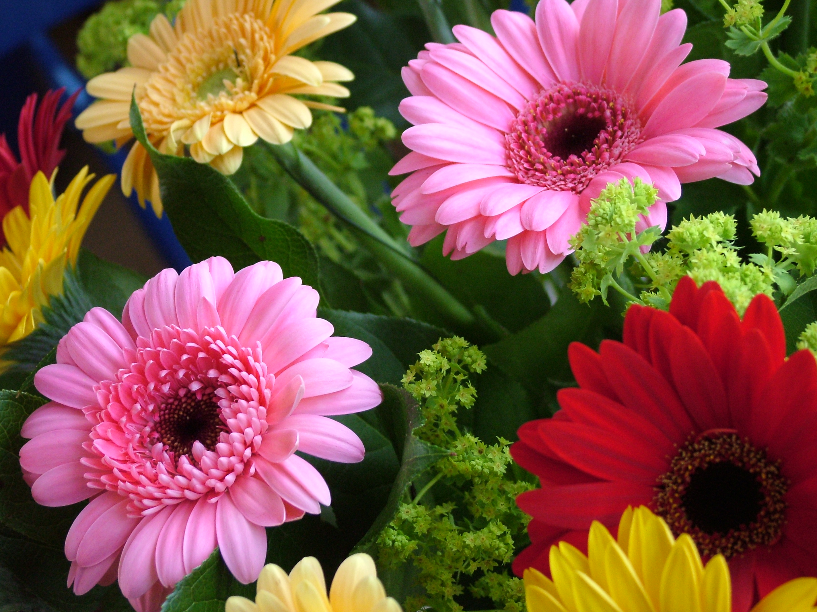 Gerbera, different colours.